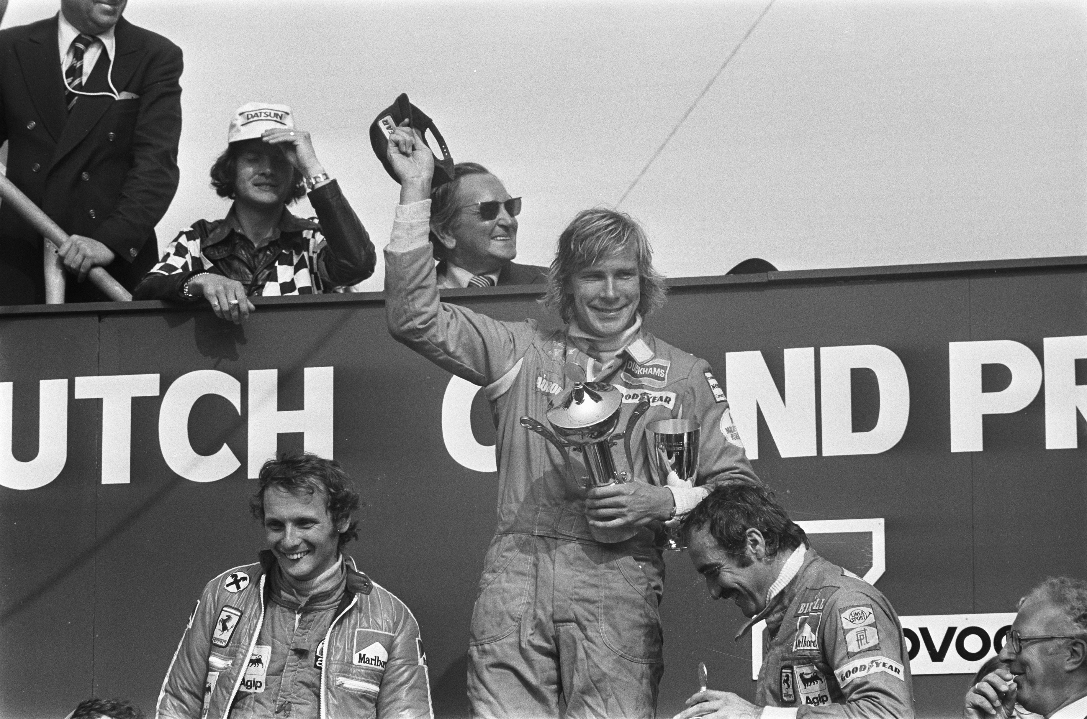 The race winner, Hesketh's James Hunt, stands on the top step of the podium at the 1975 Dutch Grand Prix. Flanking him are the Ferrari pair Niki Lauda (left) and Clay Regazzoni (right), who finished in second and third places, respectively.